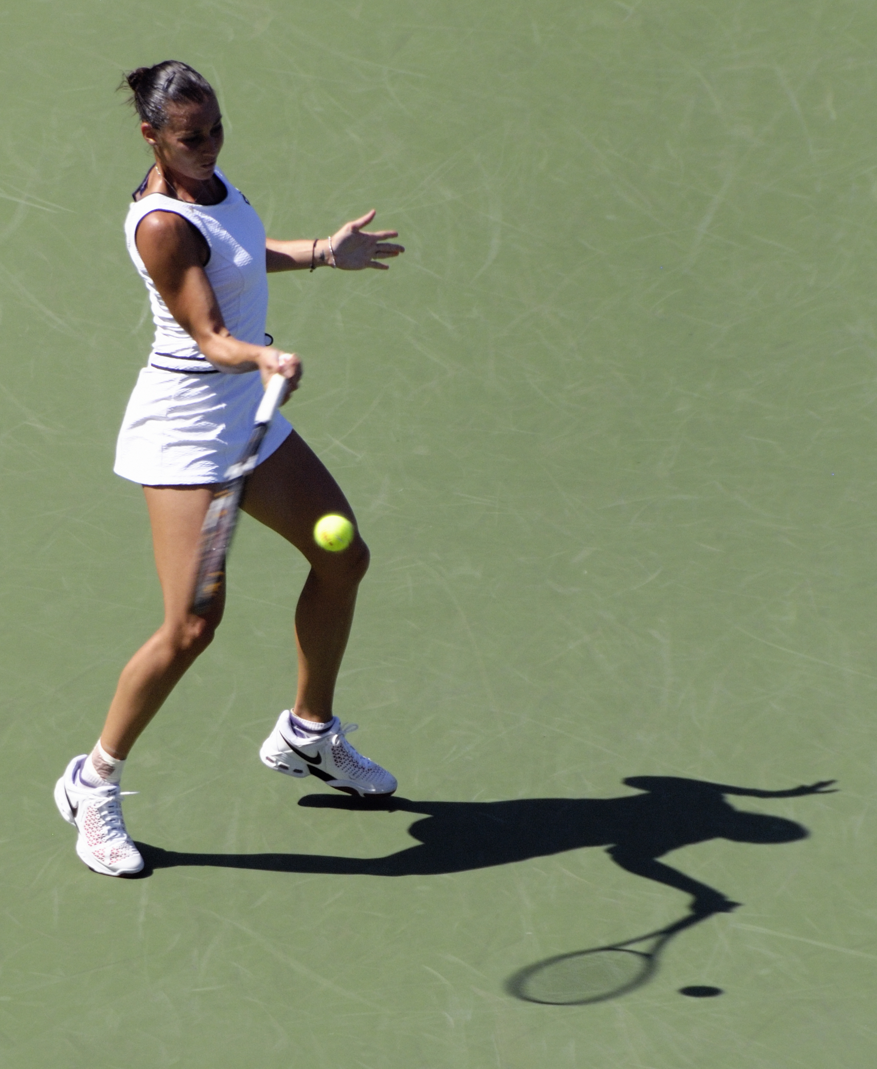 Flavia Pennetta at the 2009 US Open